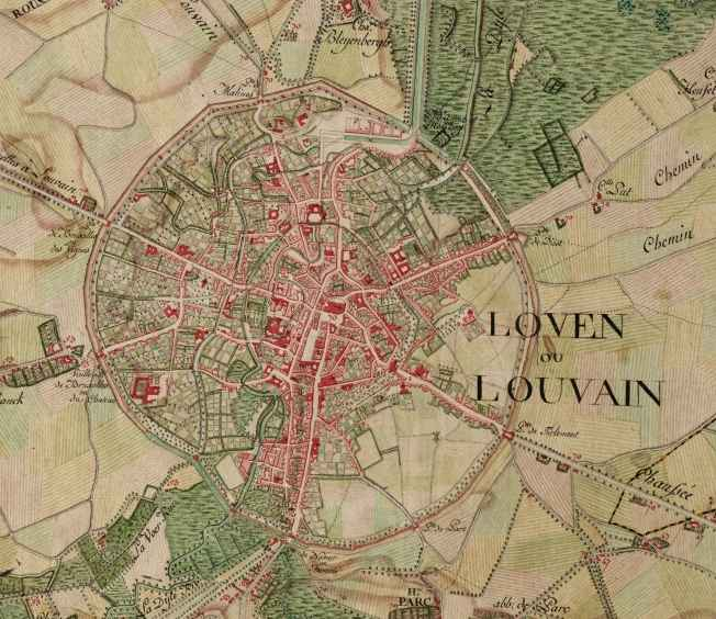 Leuven,_Belgium_;_ detail from Ferraris_Map